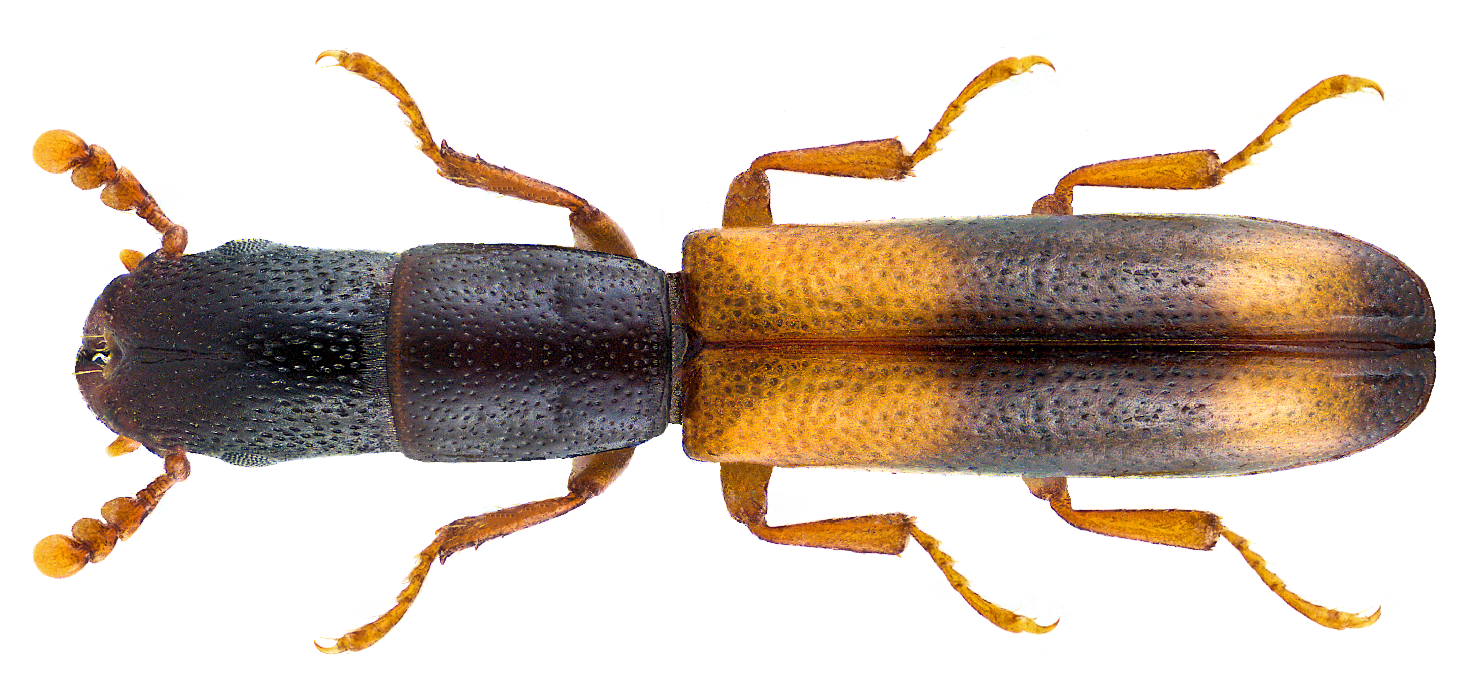 Family: Trogossitidae Size: 10.0 mm (4.0 to 6.0 mm) Distribution: Europe Ecology: Lives under bark of hardwood and conifers Location: England, Water Eaton Oxon leg.det. P.Harwood, IX.1913 Coll. Oxford University Museum of Natural History Photo: U.Schmidt, 2016